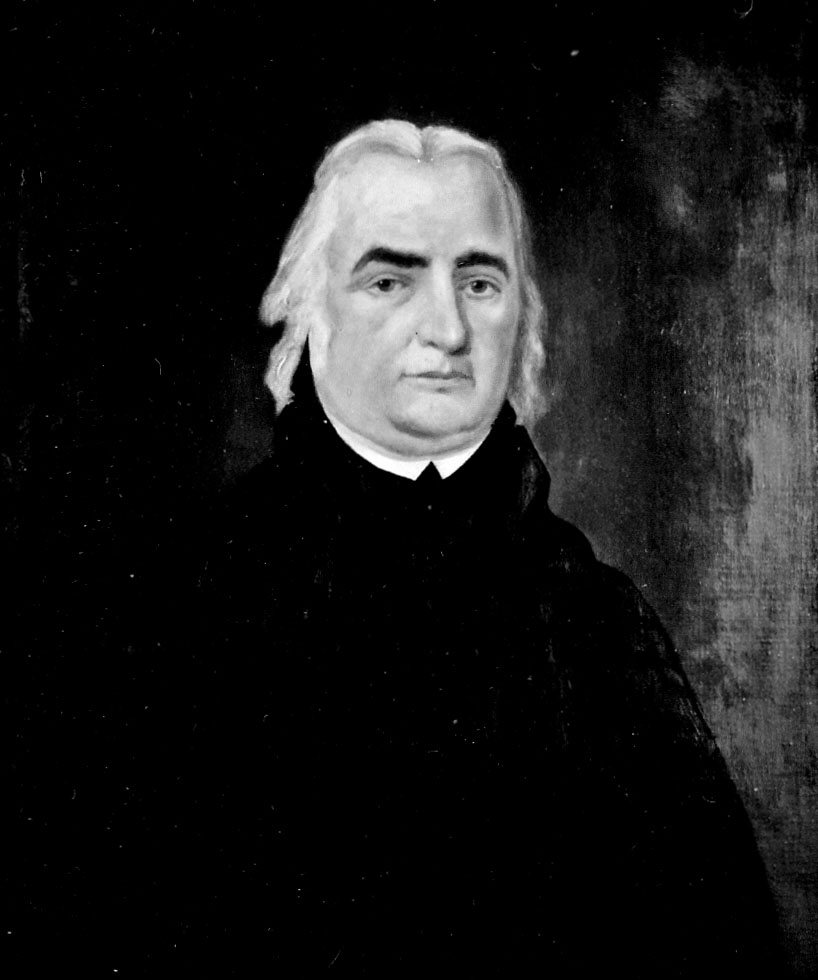 Portrait of Jesuit priest Stephen Larigaudelle Dubuisson.